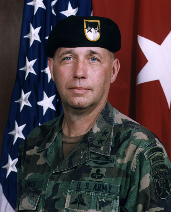 US Major-General Kennth Bowra